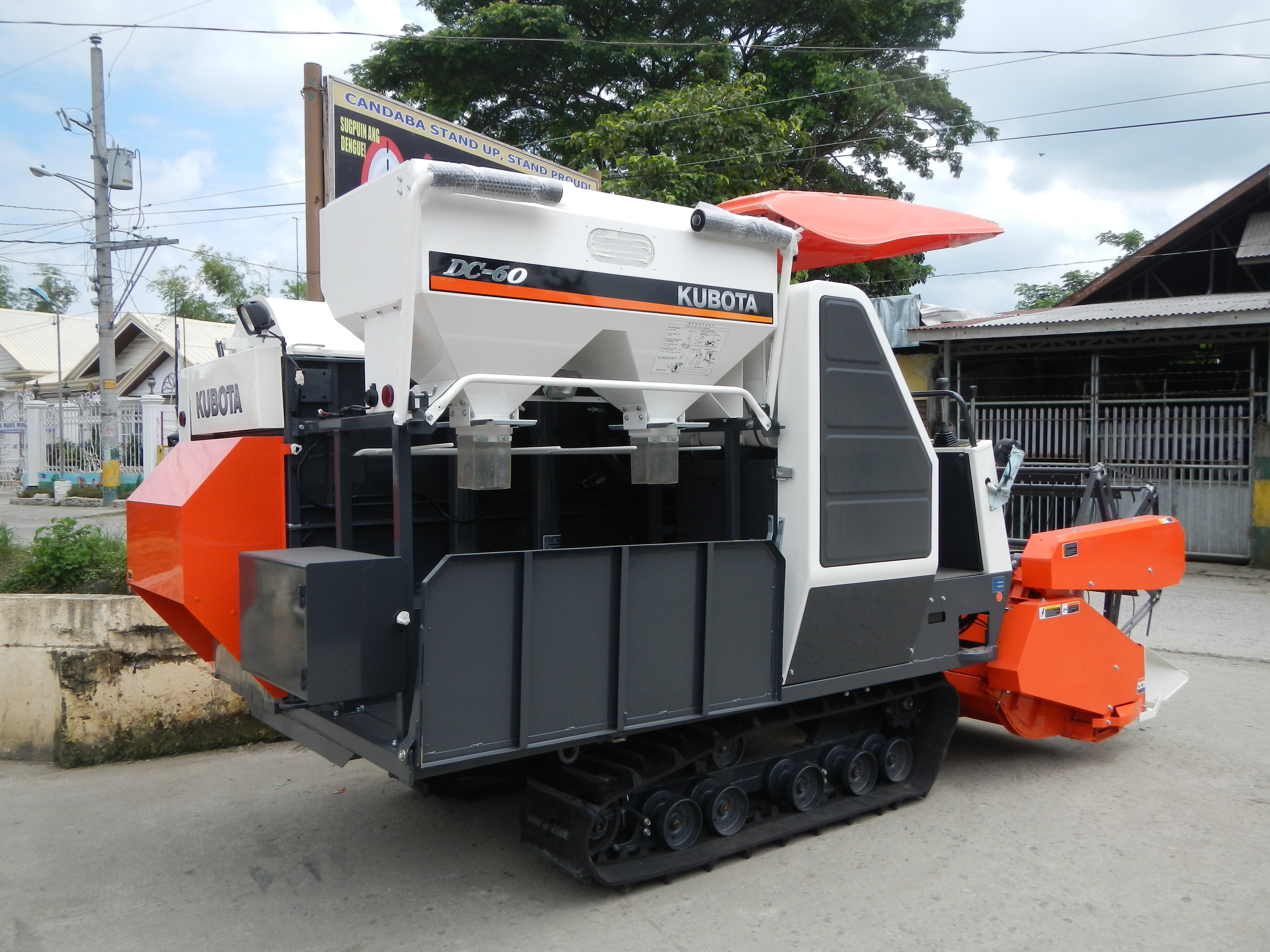 Kubota DC-60, Kubota rice harvester Kubota in FACOMA estate at Candaba, Pampanga Barangay Bahay Pare, Candaba, Pampanga.